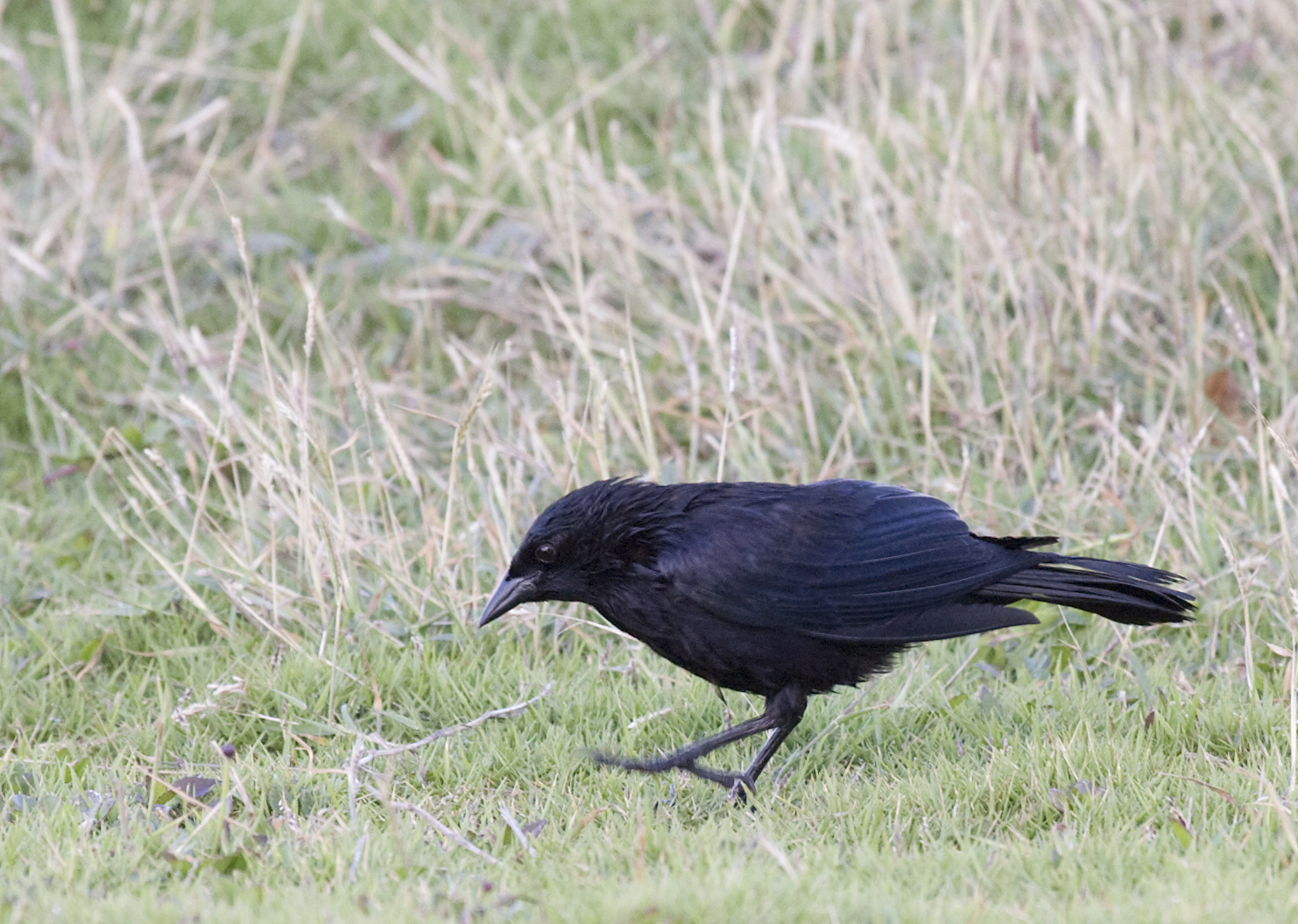 A Cuban Blackbird Ptiloxena atroviolaceus in Havana, Cuba.